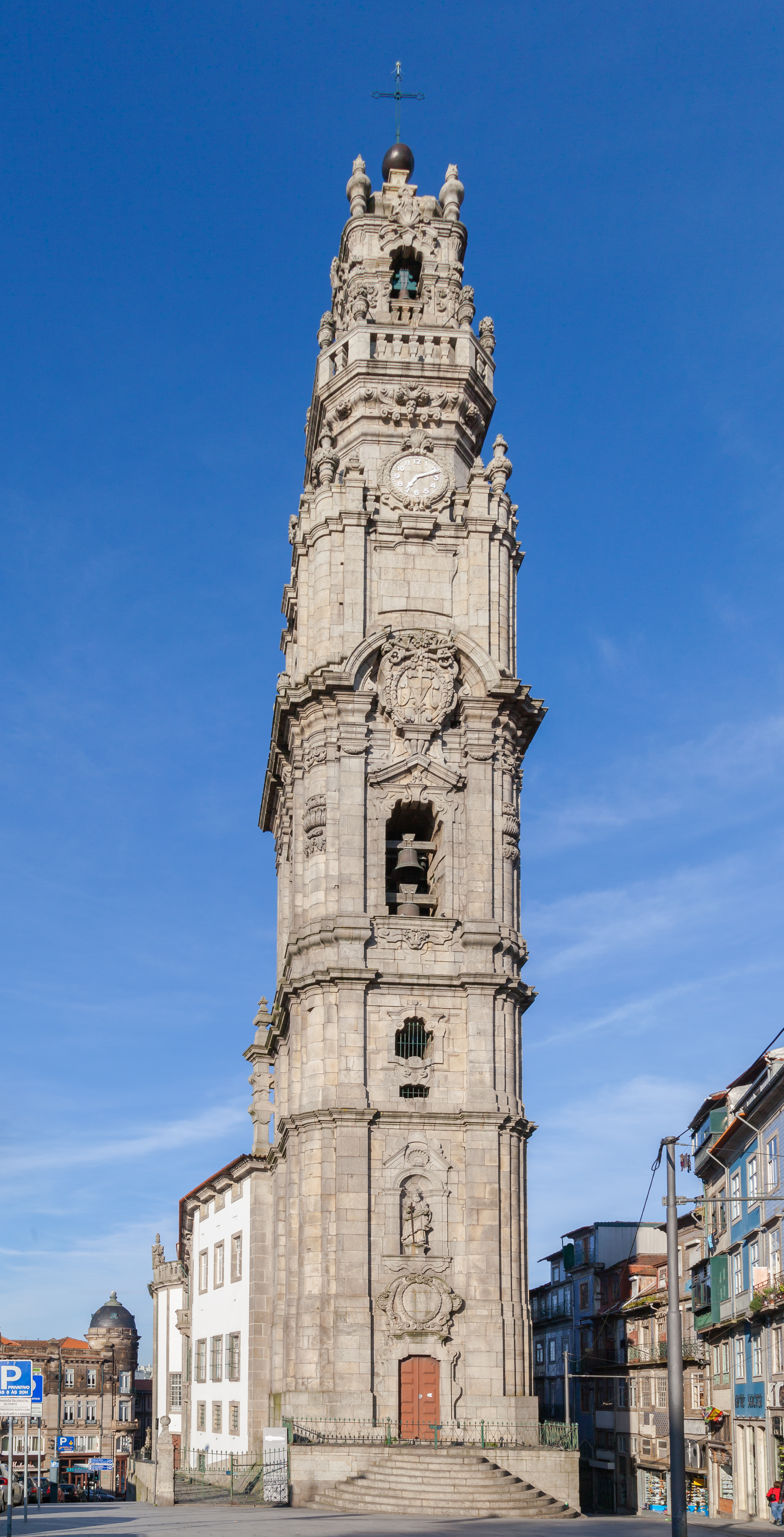 Clerics Tower, Porto, Portugal